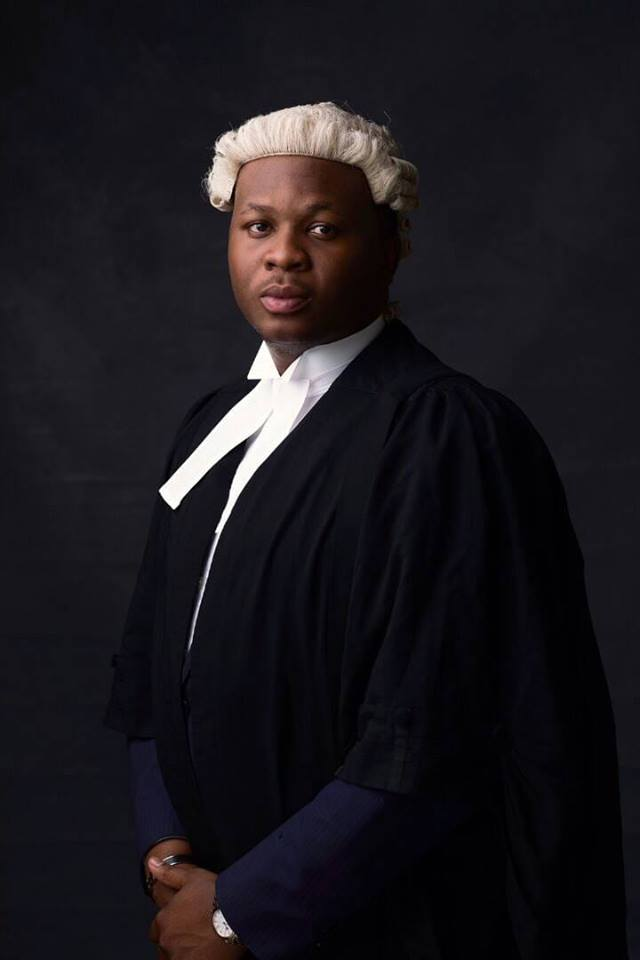 He is a Politician